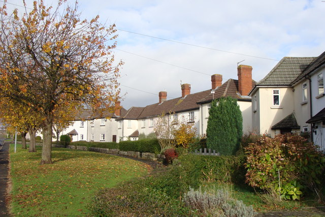 Camp Road, Bulwark Garden City This group of houses is unique in Chepstow and Bulwark Garden Cities in its layout - a straight street but the houses built as a crescent.